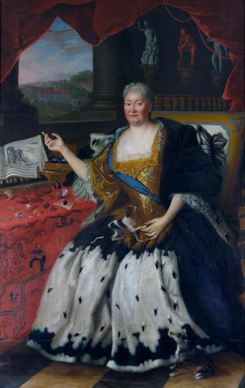 Portrait of Elisabeth of Saxe-Meiningen (1681-1766), Abbess of Gandersheim